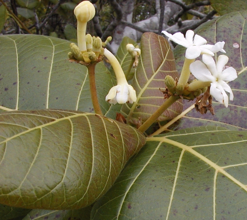 Guettarda speciosa, cultivated at resort, South Molle Island, Queensland, Australia